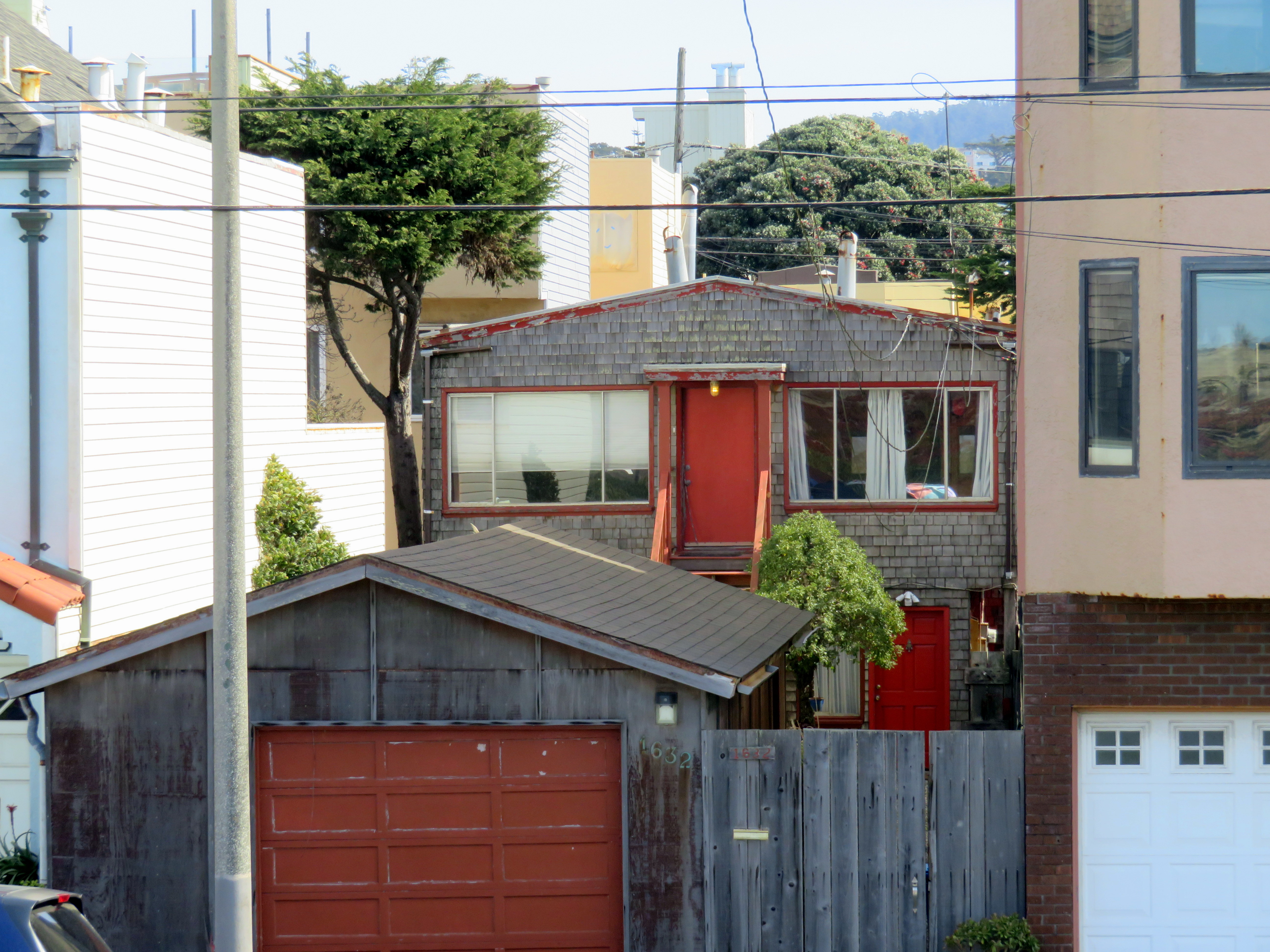 The one remaining known Carville house, photographed in February 2018